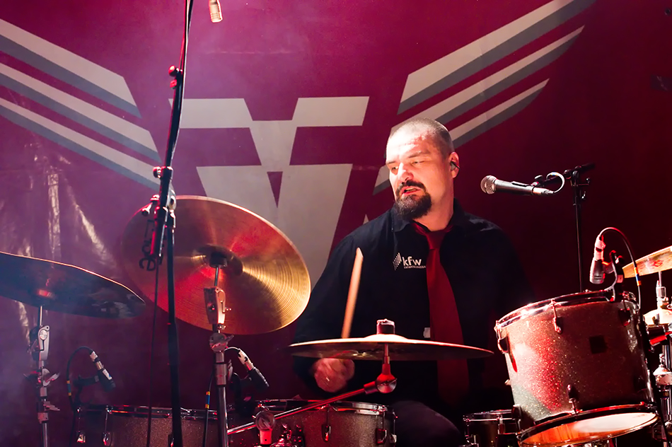 Martin Kessler Abwärts Grabehalle St. Gallen